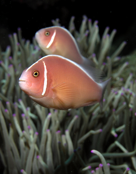 Pink anemonefish (Amphiprion perideraion) in their anemone home.